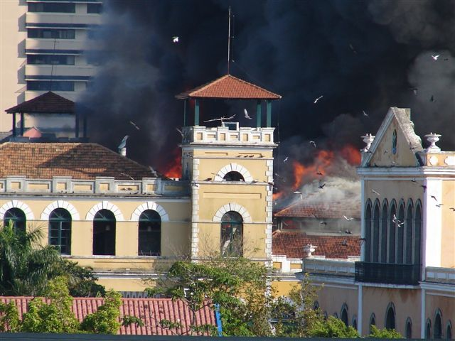 O mercado foi tomado pelas chamas na ala B